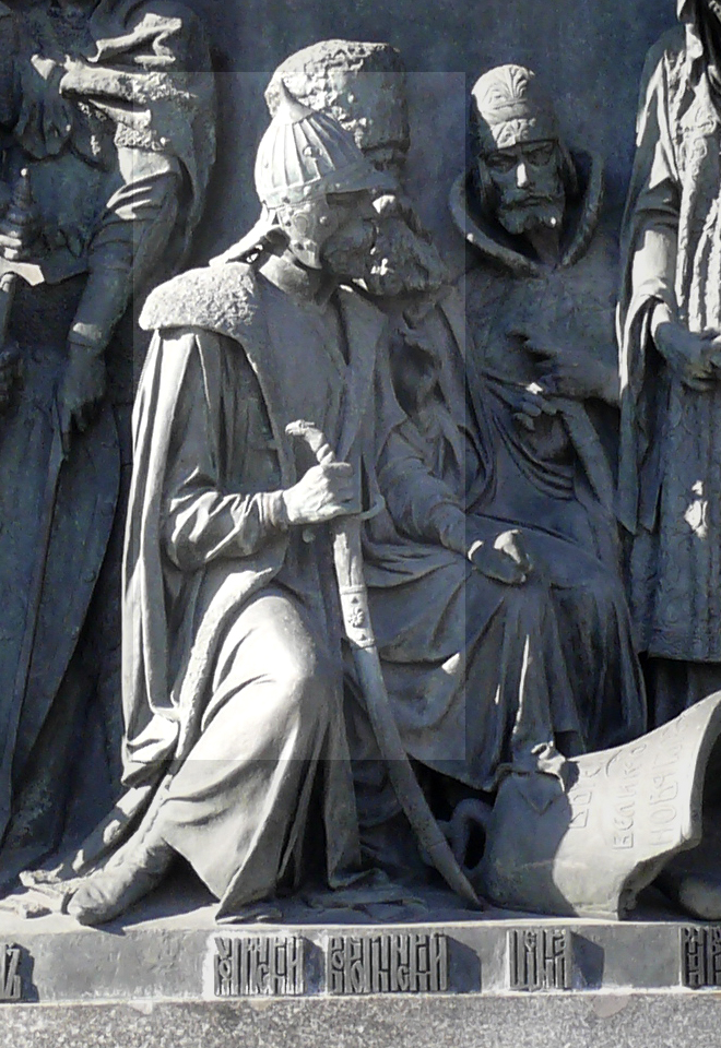 Daniil Holmsky on the Monument "Millennuim of Russia" in Veliky Novgorod